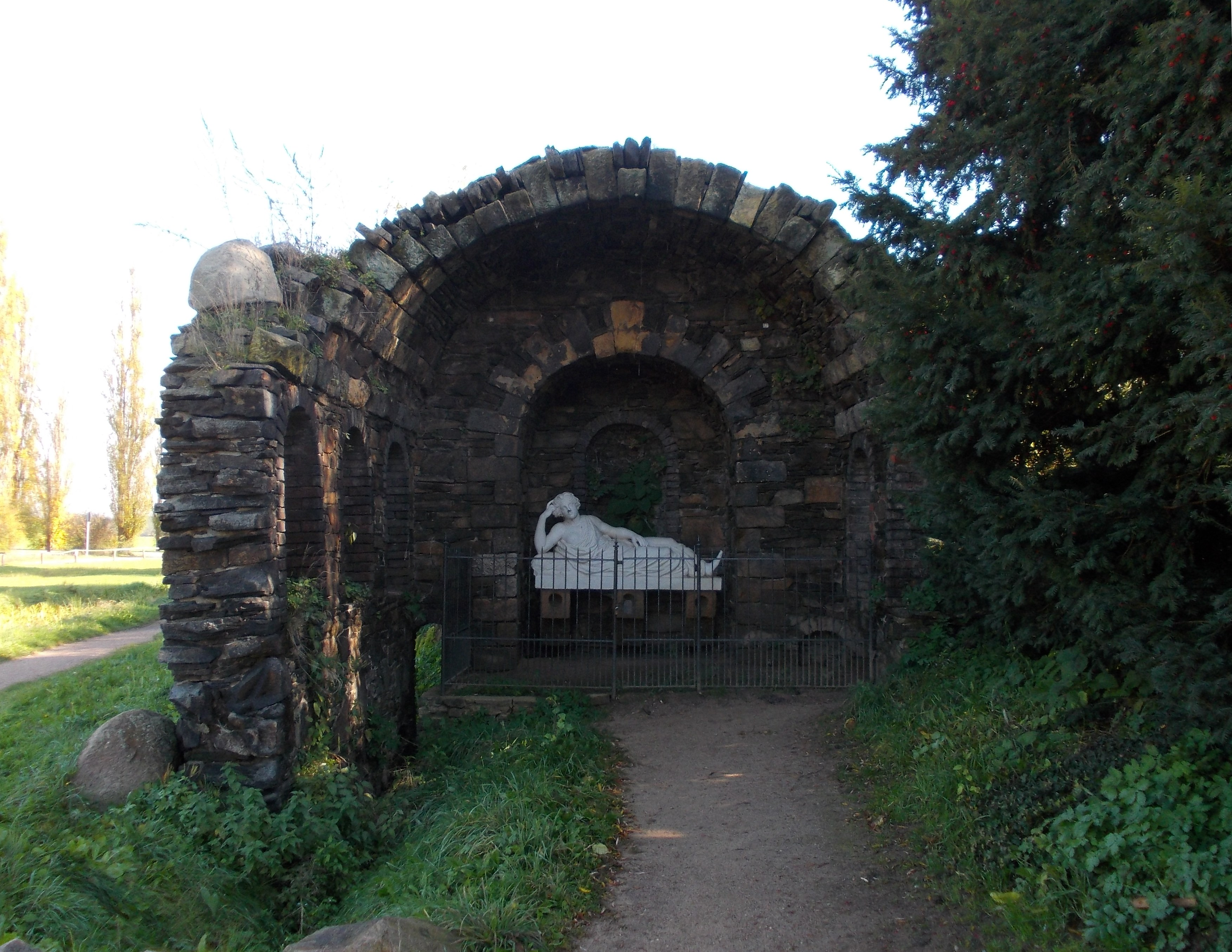 Grotto of Egeria in the gardens of Wörlitz